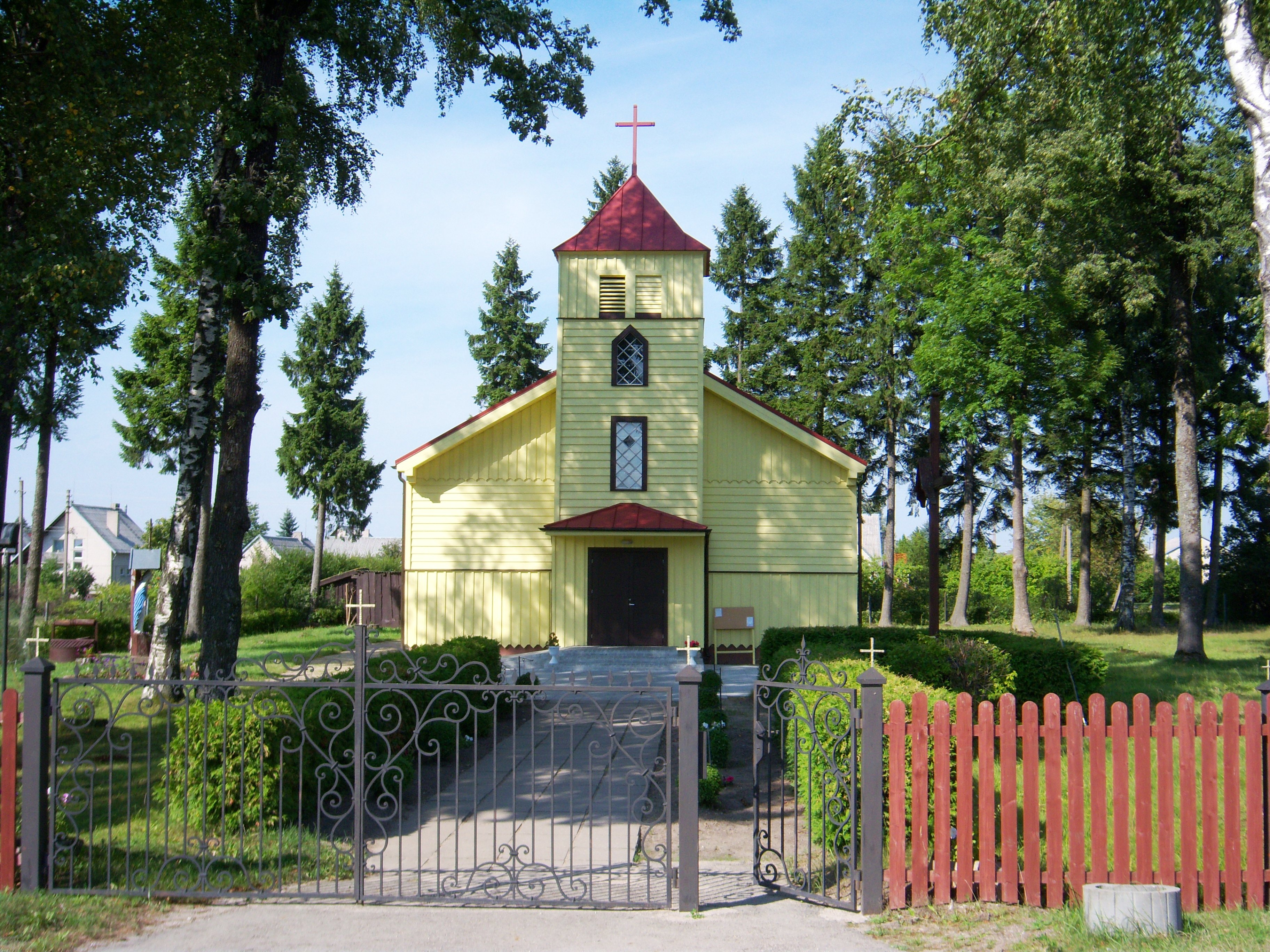 Plikiai Catholic church, Klaipėda District. Lithuania